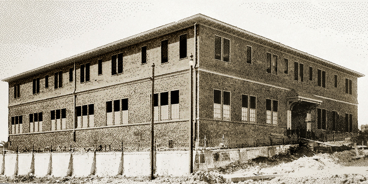 The "Baby" Palace Hotel, Post & Leavenworth Sts, San Francisco, CA (1906) Built as a temporary replacement for the original Palace Hotel (1875-1906) located at Market & New Montgomery Sts. which was destroyed in the 1906 earthquake and fire.